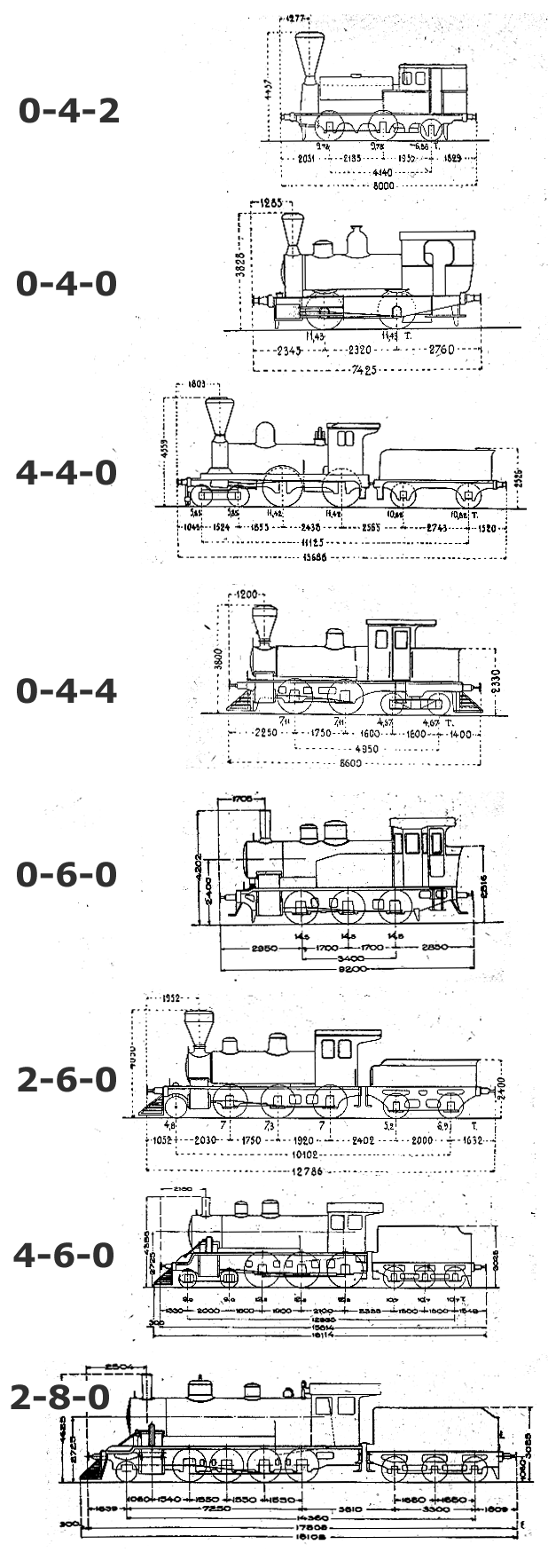 Locomotives of different types.